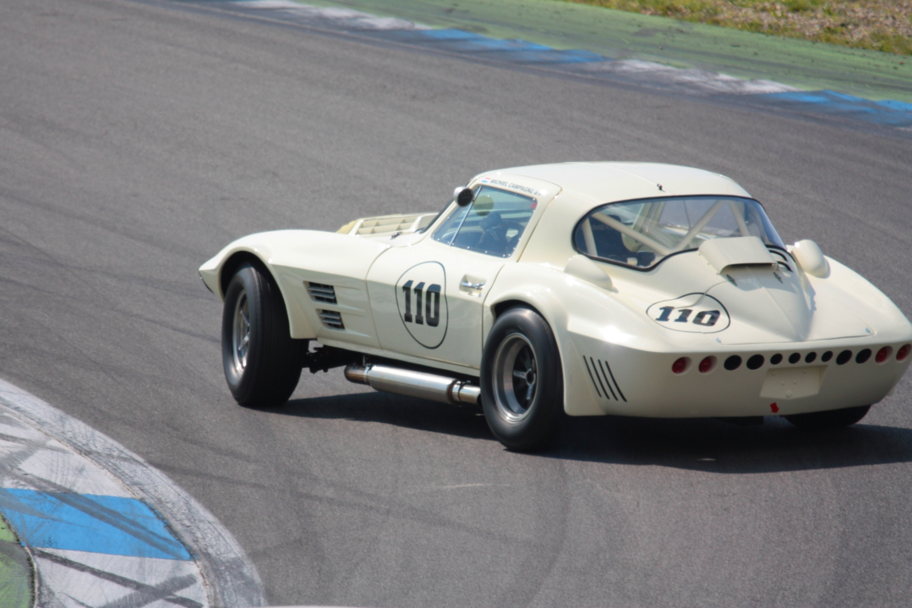 Michel Campagne driving a Chevrolet Corvette Grand Sport at Qualifikation of the NK HTGT at Hockenheim Histoirc 2011.